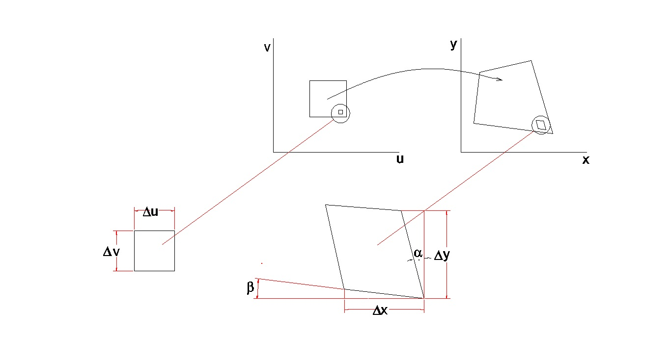 mapping of a function u,v over x,y. It help to understand why it is necessary to multiply dxdy by the jacobian determinant in a change of integral variables.